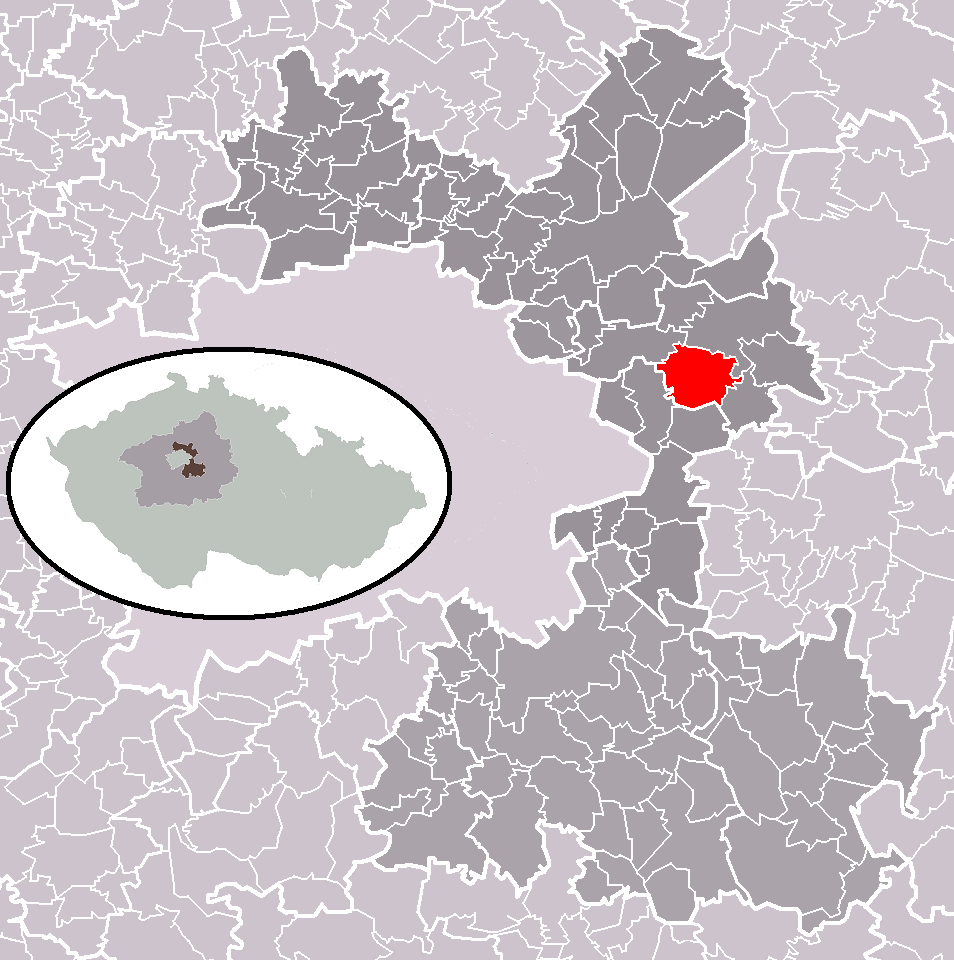 Location of Nehvizdy market town within Prague-East District and administrative area of Brandýs nad Labem-Stará Boleslav as a Municipality with Extended Competence.